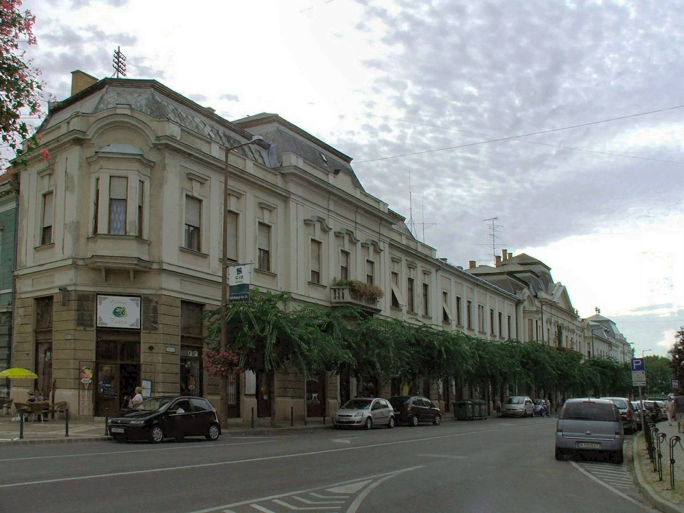 Lőrinc (sometimes spelled Lőrincz) street in Esztergom, Hungary